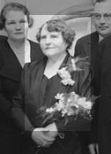 Cropped and enhanced from Svinhufvud_med_familj.jpg